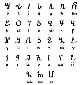 Osmaniya or Ciismaniya alphabet, invented for the Somali language; I (RoboRanks) created it from a Pdf file